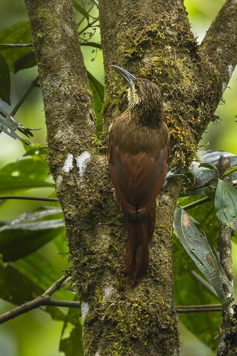 Strong-billed Woodcreeper - Colombia_S4E0111